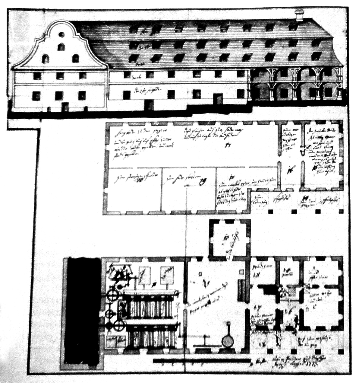 Plan of József Forschel for the Diósgyőr Papermill, 1773